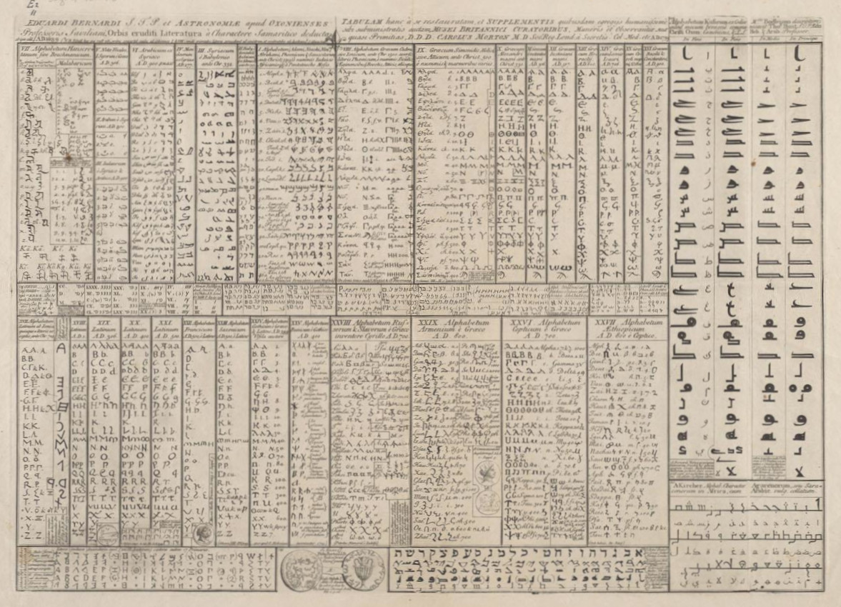 Orbis eruditi literatura à charactere Samaritico deducta A comparison of all scripts known to the western world as at 1689, prepared at the Bodleian Library at Oxford University